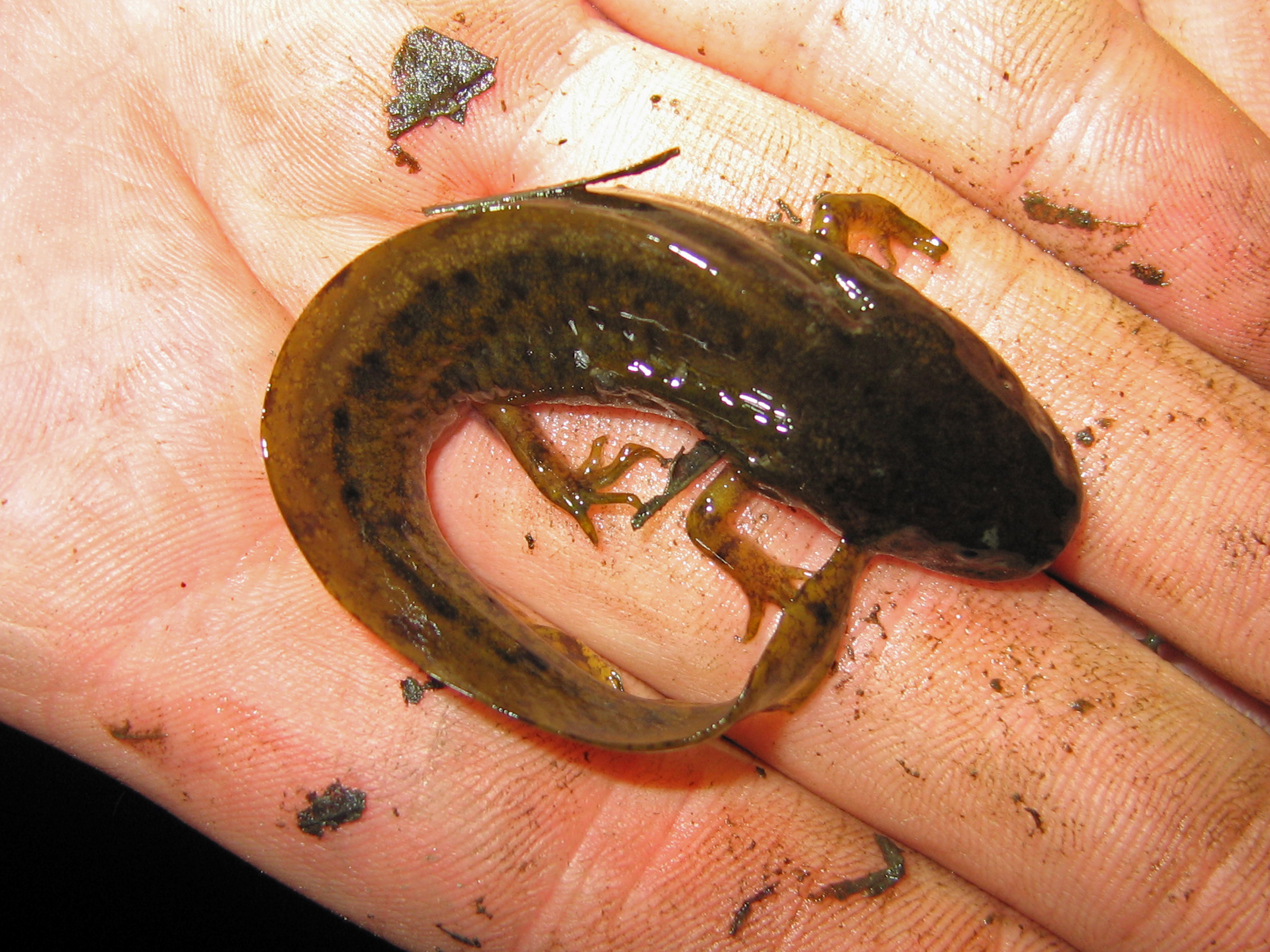 Juvenile Northwestern Salamander, Amybstoma gracile